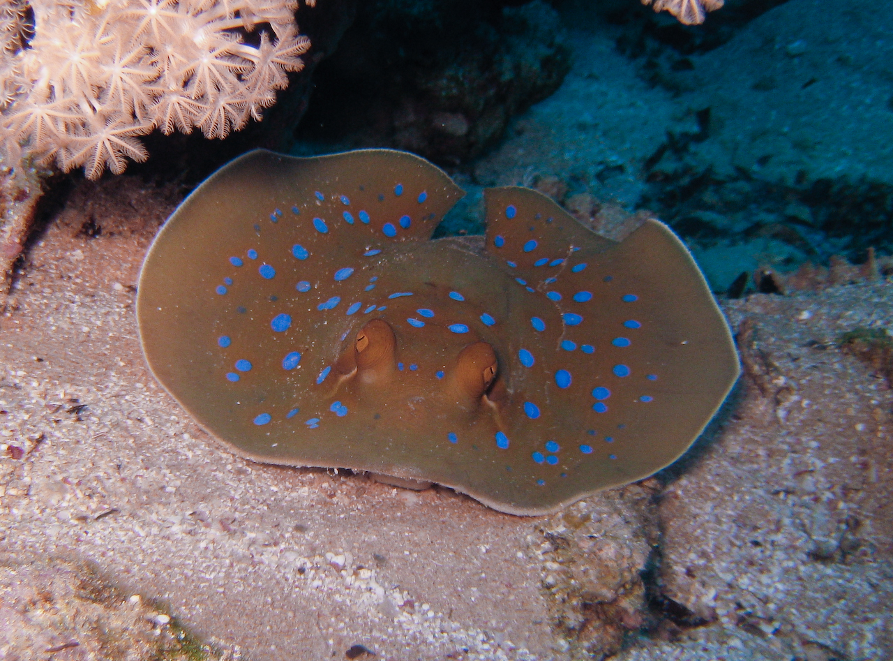 Bluespotted ribbontail stingray (Taeniura lymma) in the Red Sea.